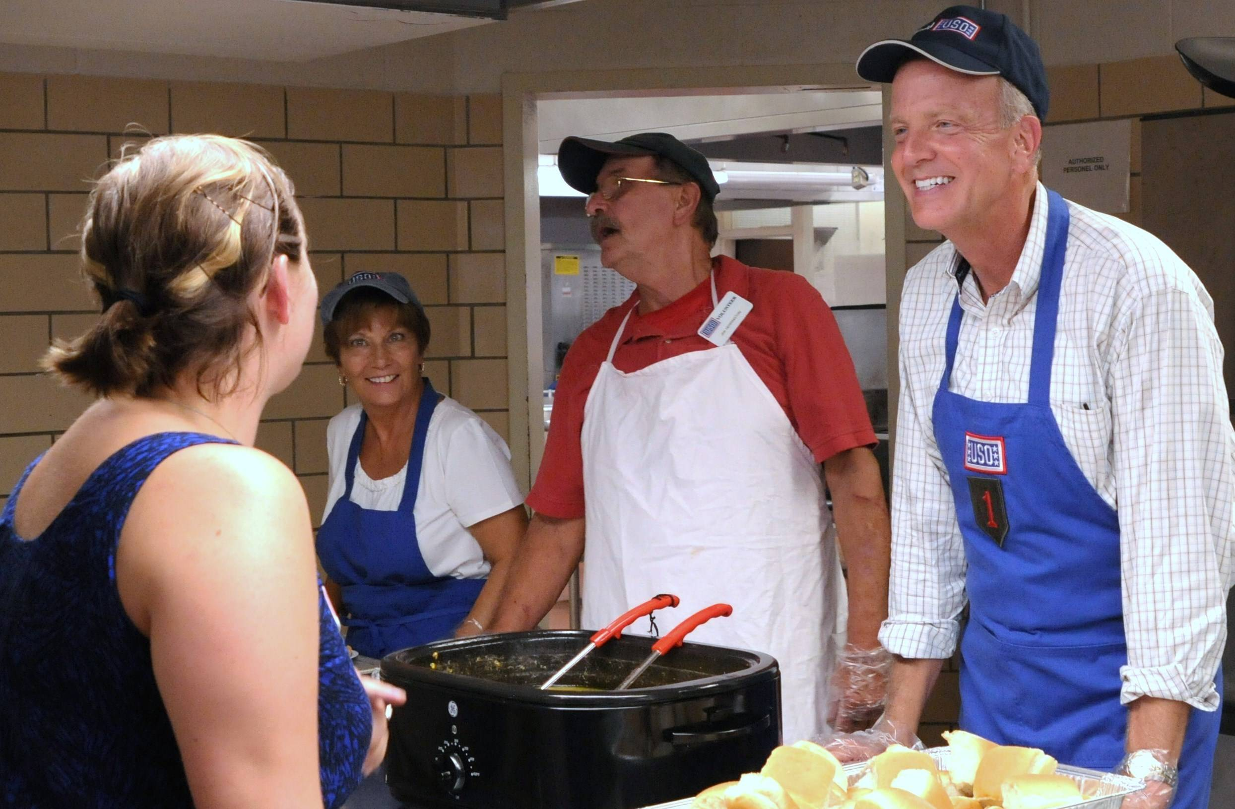 U.S. Senator Jerry Moran (R-Kan.) visits with a 1st Infantry Division spouse Aug. 12 during the USO No Dough Dinner. Moran and his wife Robba traveled to Fort Riley, Kan., to assist volunteers with the bi-monthly dinner that provides a free meal for up to 250 Soldiers and their Family members. The Aug. 12 dinner was sponsored by American Legion Post 370 in Overland Park, Kan. (Photos by Mollie Miller, 1st Infantry Division Public Affairs)